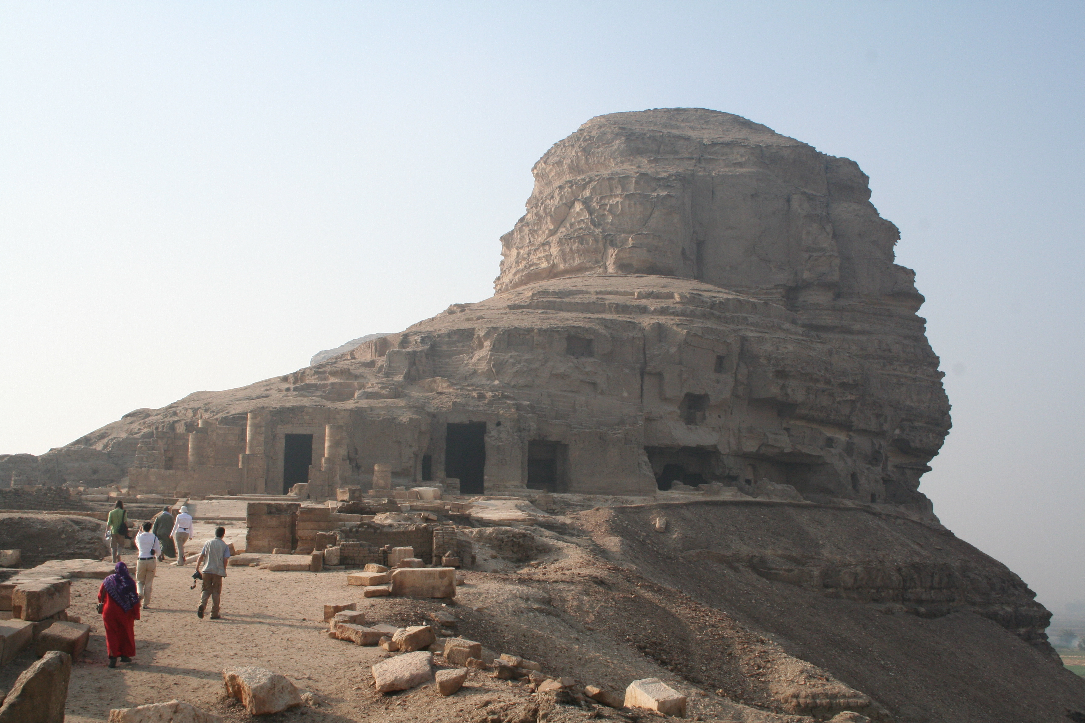 Tihna el-Gebel Ἀρχαία ἑλληνικὴ: Ἄκωρις